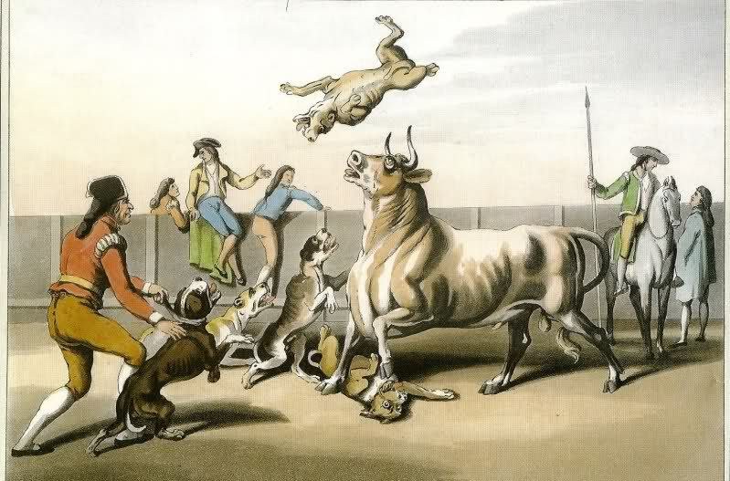 1813-1814. Dogs in a Bull fighting by Edward Orme, based in the work Perros le echan al toro by Luís Fernández Noseret, 1795 (Colección de las Principales Suertes de Una Corrida de Toros). Apparently Orme replaced the Spanish dogs for Old English Bulldogs. "Spanish Bull Fighting". "General View of a Spanish Bull Fight." Edward Orme (British, 1775–1848).